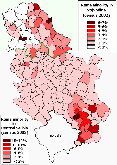 Roma minority in Serbia